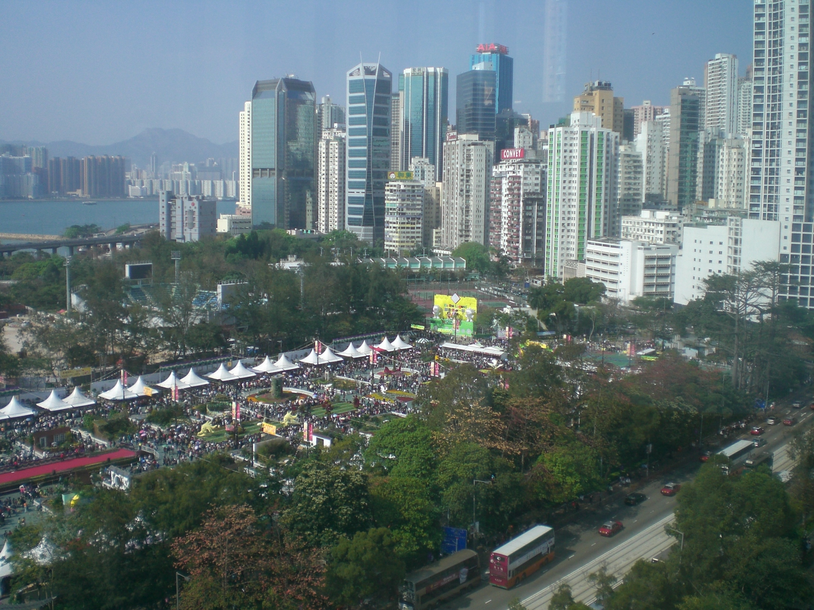 銅鑼灣